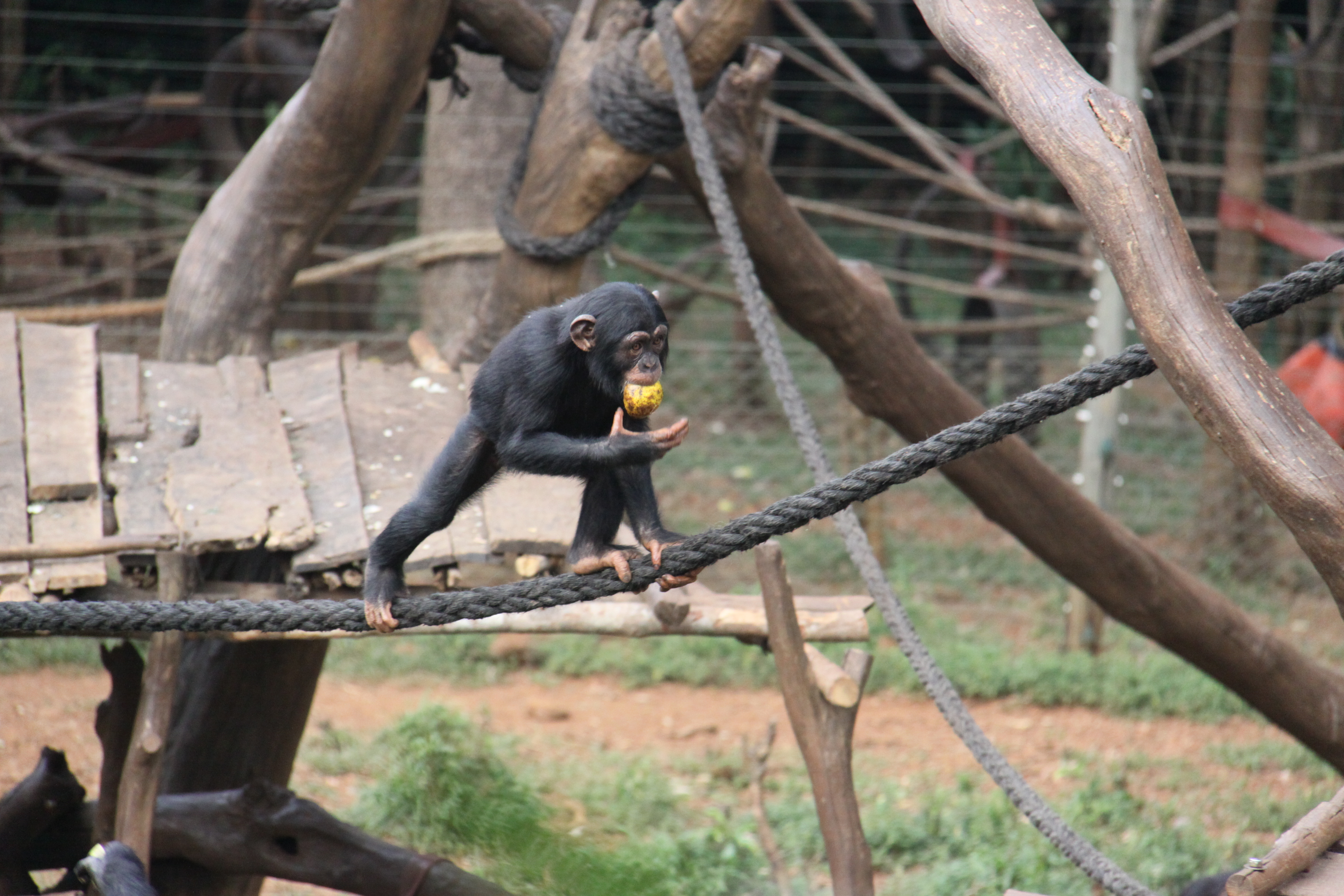 IMG_3668/Common Chimpanzee